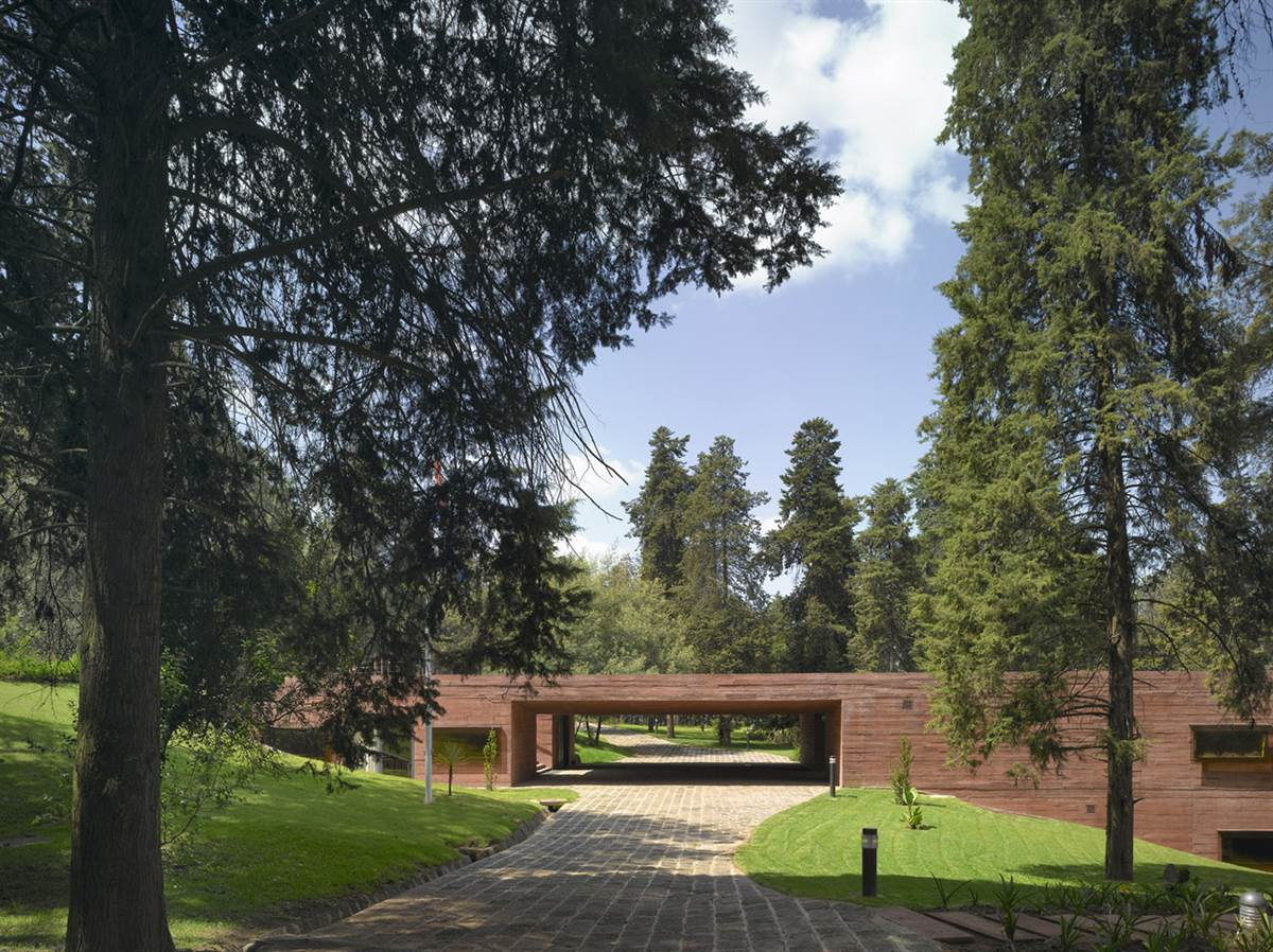 Ethiopia Dutch Embassy in Addis Abeba